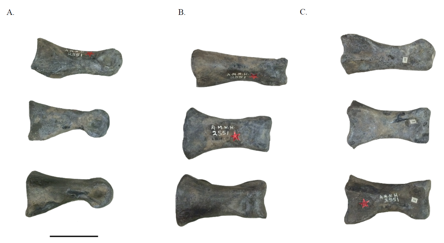 Phalanges of a derived ornithomimosaur, AMNH 2551. Phalanges in medial (A) dorsal (B), and ventral (C) views. Scale bar = 50 mm.